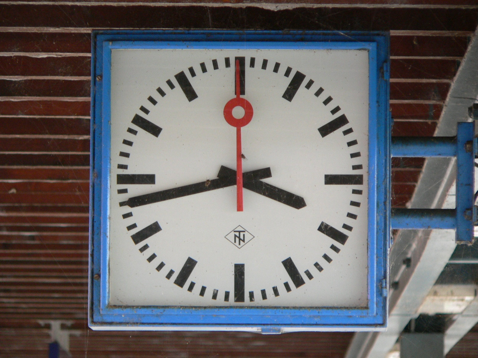 Lindau, Germany, railway station